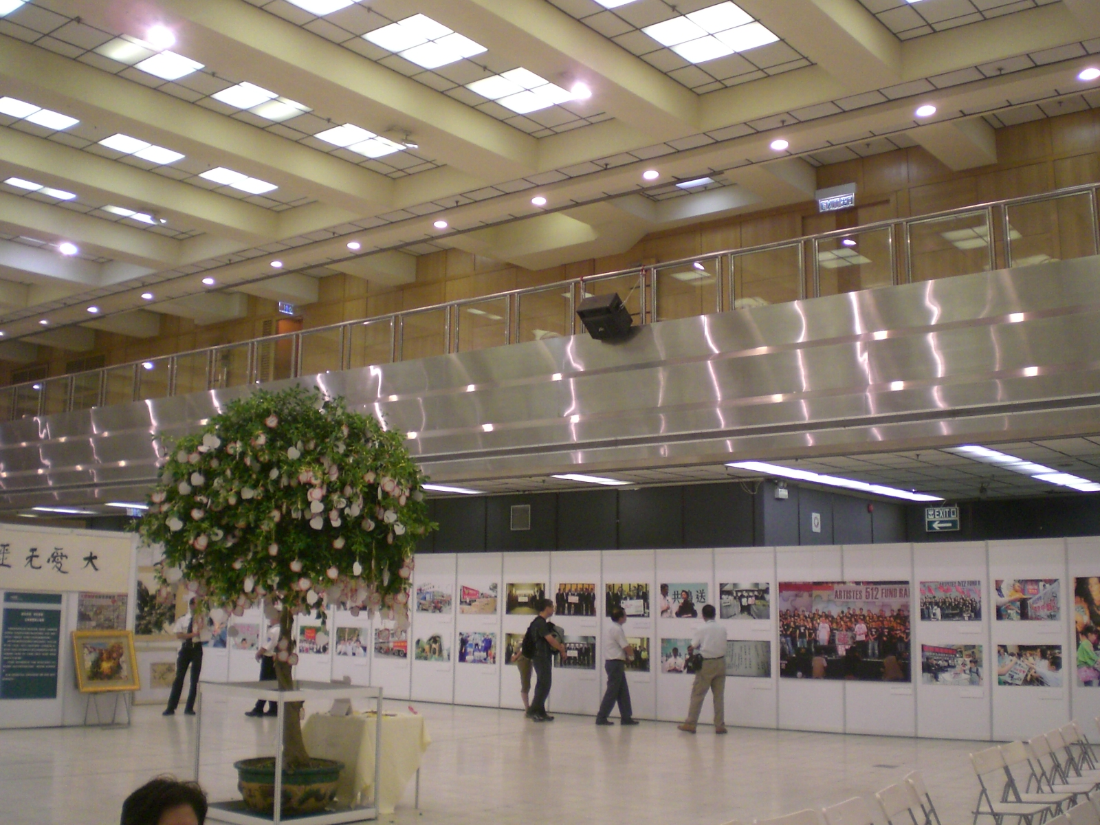 灣仔北會議道香港展覽中心en:Wish Tree許願樹